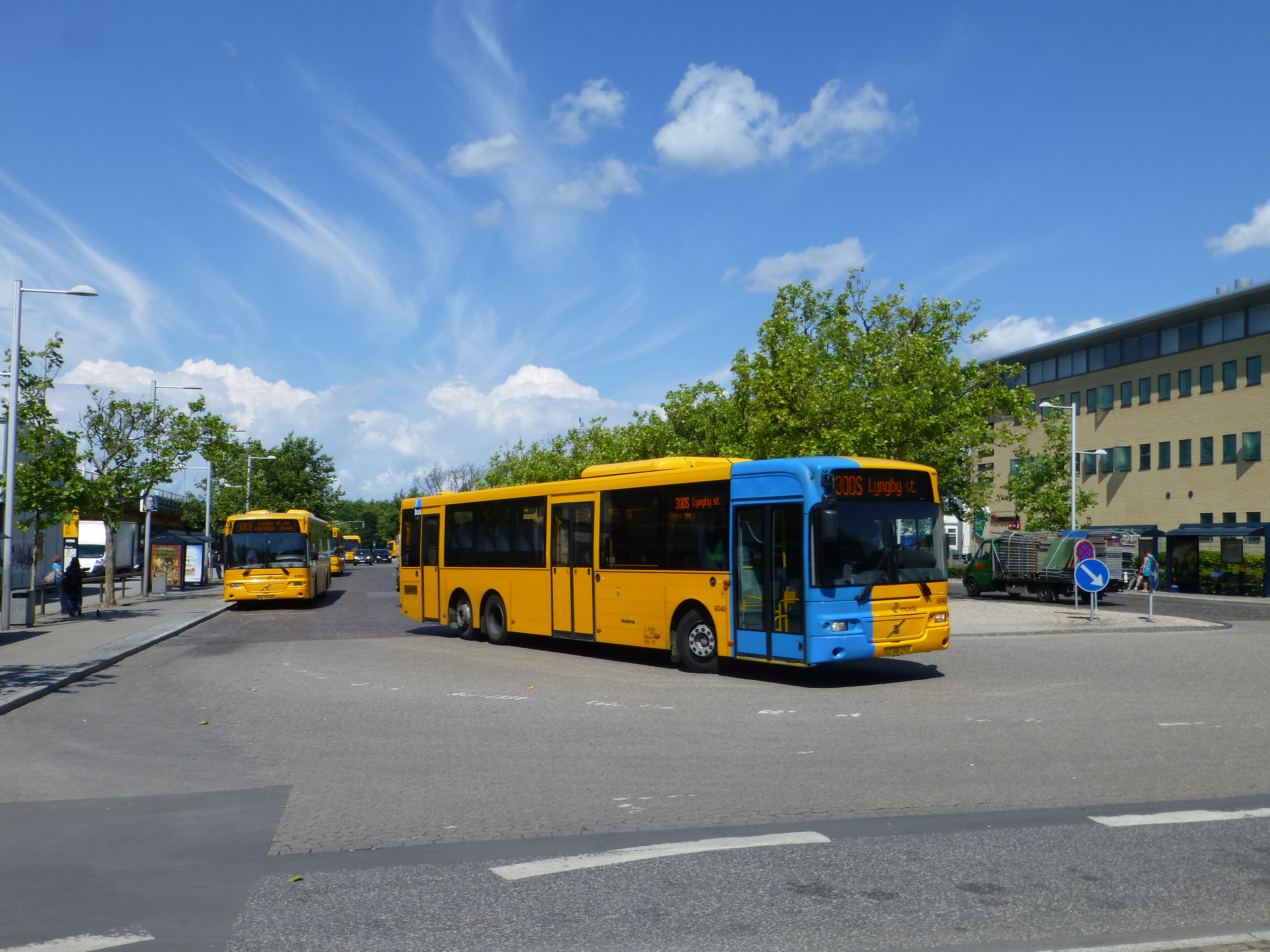 Movia bus line 300S at Lyngby Station in Copenhagen.